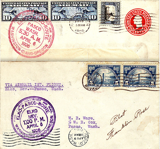 Covers flown Eastbound (top) and Westbound (bottom) on the first flights on CAM-5 between Pasco, WA, and Elko, NV. April 6, 1926 Notes The postal stationary cover (U436h) flown Eastbound is also an unusual 3-cent carmine error (Die 5). The correct color for 3-cent printed postage is violet; carmine is the color for 2-cents. The cover flown Westbound and autographed by pilot Franklin Rose is also a "crash cover" as the first leg of the flight was forced 75-miles off course by storms enroute from Elko to Boise before making a forced landing near Jordan Valley. The pilot and mail remained missing for two days until pilot Rose finally managed to reach a telephone on April 8 after carrying the 98 pounds of mail for many miles out of the wilderness by foot and later on a horse borrowed from a farmer. The mail finally arrived at the Post Office in Pasco late in the morning of April 9, three days after leaving Elko.